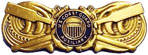 The Auxiliary Coxswain insignia which is worn by USCG Auxiliary Coxswains. It is similar in appearance to USCG Coxswain insignia.